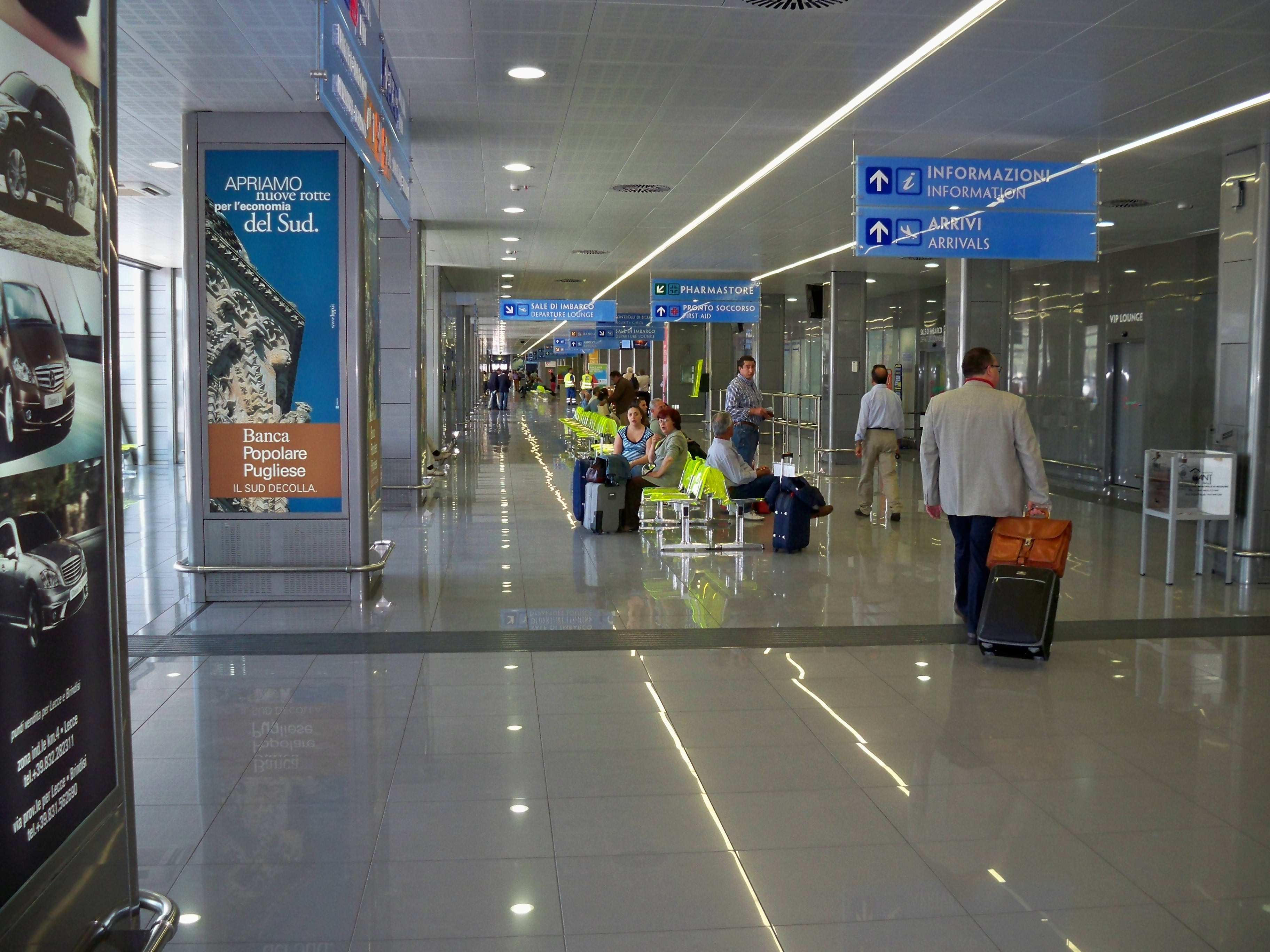 Brindisi- Casale Papola Airport BDS